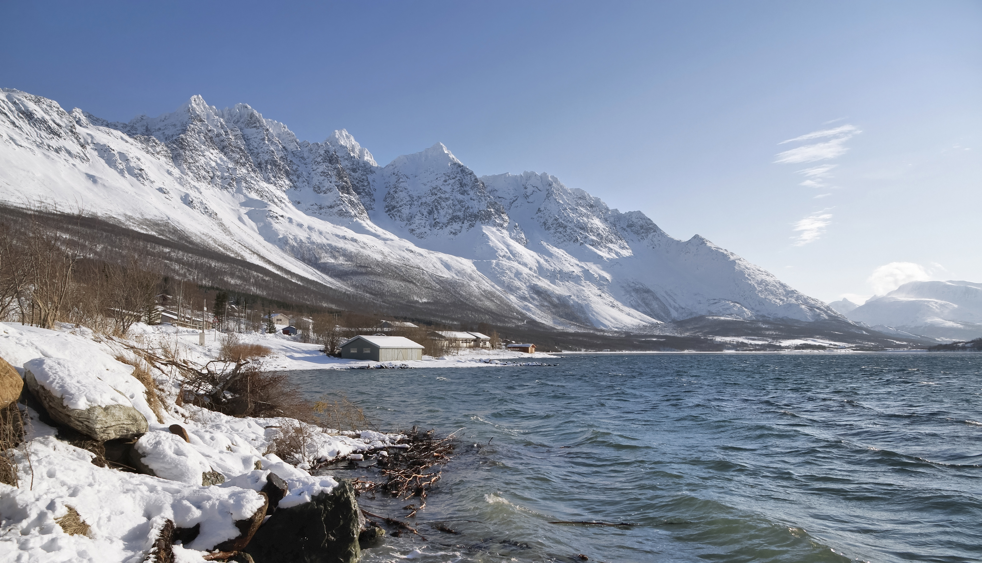 View to Lakselvtindane mountain group and Lakselvbukta bay from Lakselvnesset at Naustvoll in 2012 March. The place is located at Sørfjorden (a fjord extension to Ullsfjorden), Tromsø commune, Troms, Norway.